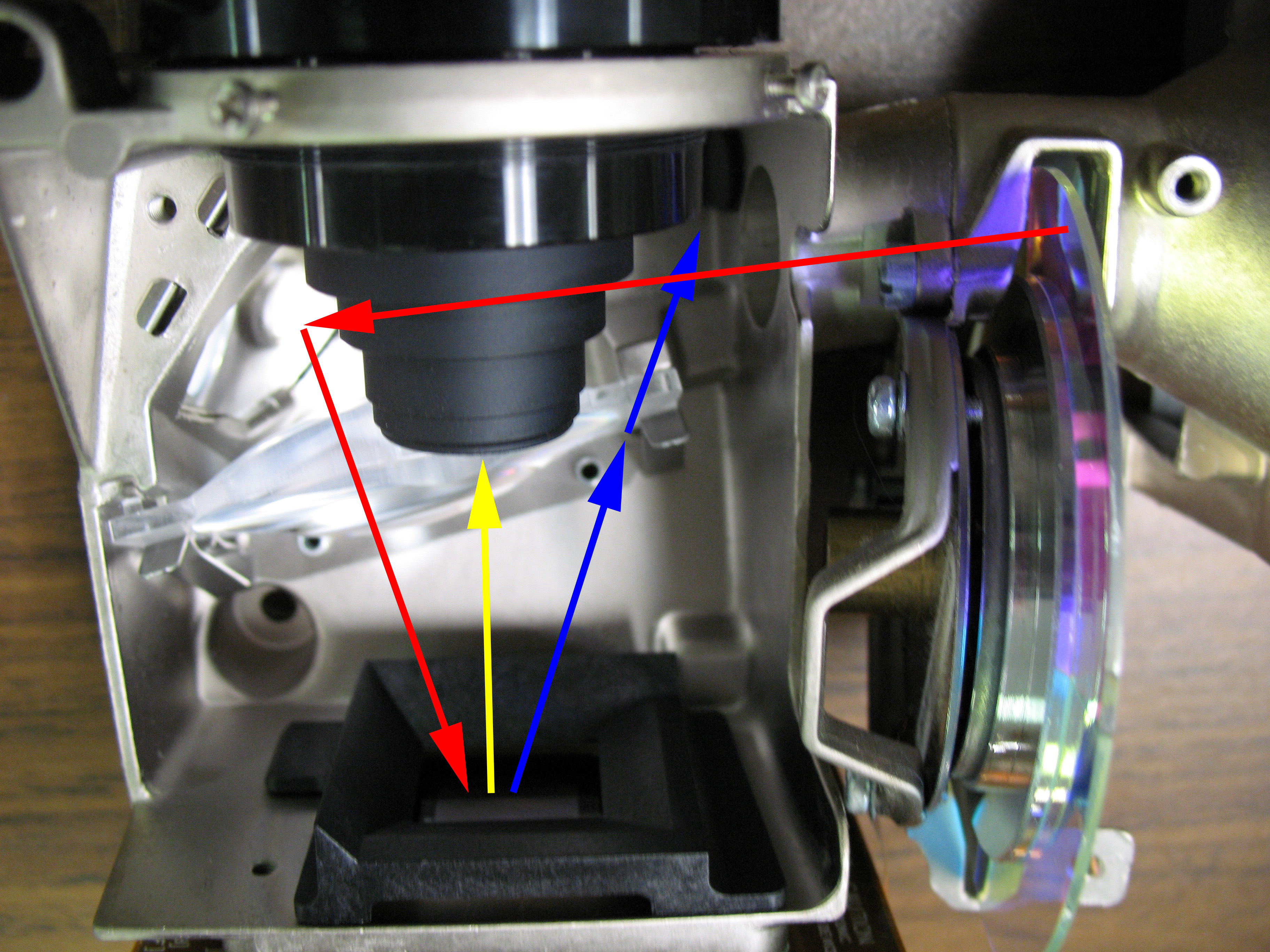 Internal components of an old 1998 InFocus LP425z single-chip DLP projector, with a 4-segment color wheel. Interior view of a single-chip DLP projector, showing the light path. Light from the lamp enters a reverse-fisheye, passes through the spinning color wheel, crosses underneath the main lens, reflects off a front-surfaced mirror, and is spread onto the DMD (red arrows). From there, light either enters the lens (yellow) or is reflected off the top cover down into a light-sink (blue arrows) to absorb unneeded light.